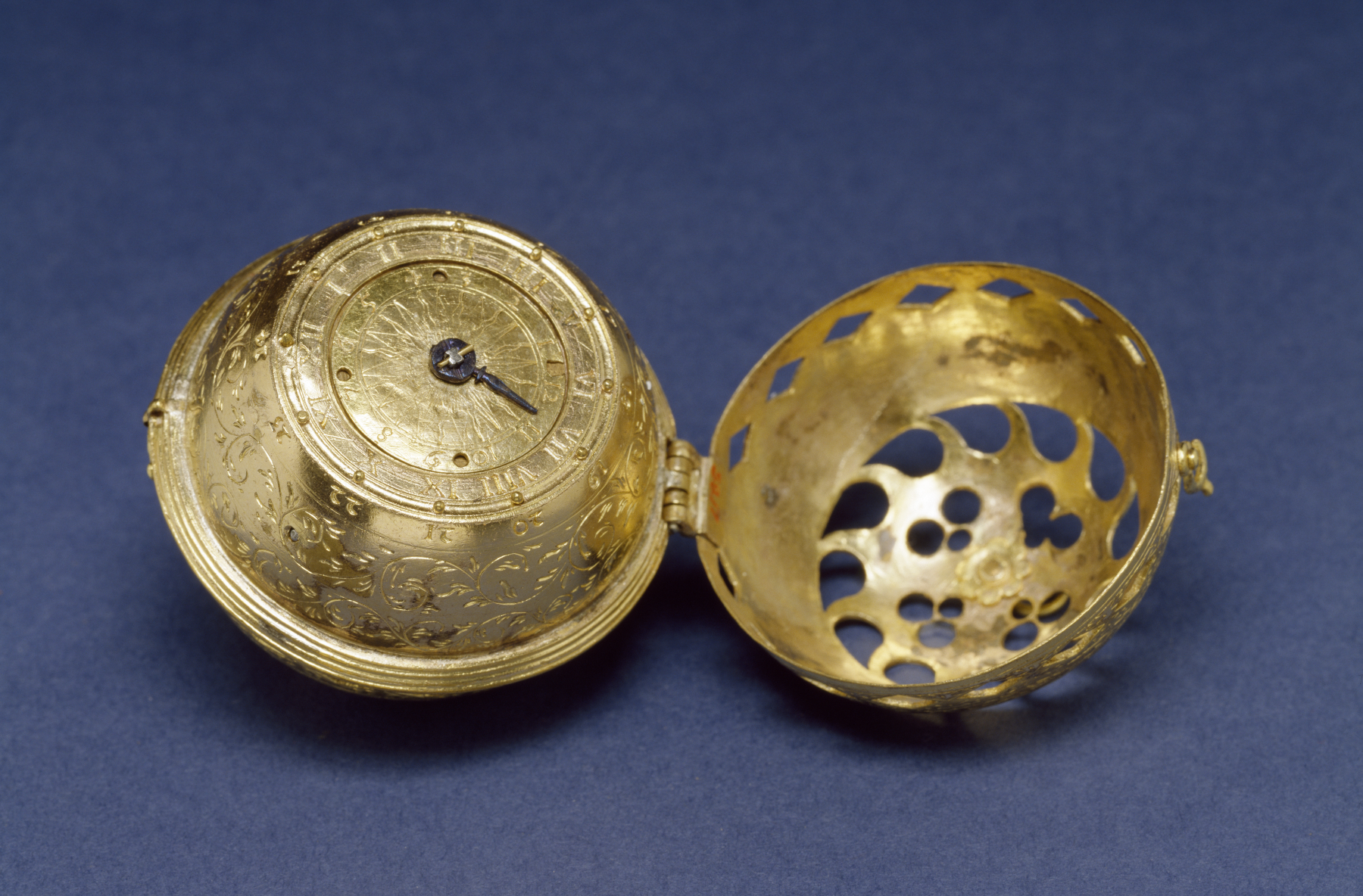 This is the earliest dated watch known. It is engraved on the bottom: "PHIL[IP]. MELA[NCHTHON]. GOTT. ALEIN. DIE. EHR[E]. 1530" (Philip Melanchthon, to God alone the glory, 1530). There are very few watches existing today that predate 1550; only two dated examples are known--this one from 1530 and another from 1548. There is no watchmaker's mark, although Nuremberg is considered the birthplace of spherical watches (called "Nuremberg Eggs"). A single winding kept it running for 12 to 16 hours, and it told time to within the nearest half hour. The perforations in the case permitted one to see the time without opening the watch. This watch was commissioned by the great German reformer and humanist Philip Melanchthon (1497-1560).